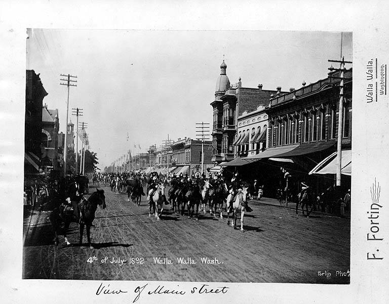 Caption on image: 4th of July 1892, Walla Walla, Wash. PH Coll 716.13 Subjects (LCSH): Fourth of July celebrations--Washington (State)--Walla Walla; Parades--Washington (State)--Walla Walla; Main Street--Washington (State)--Walla Walla; Streets--Washington (State)--Walla Walla; Business enterprises--Washington (State)--Walla Walla